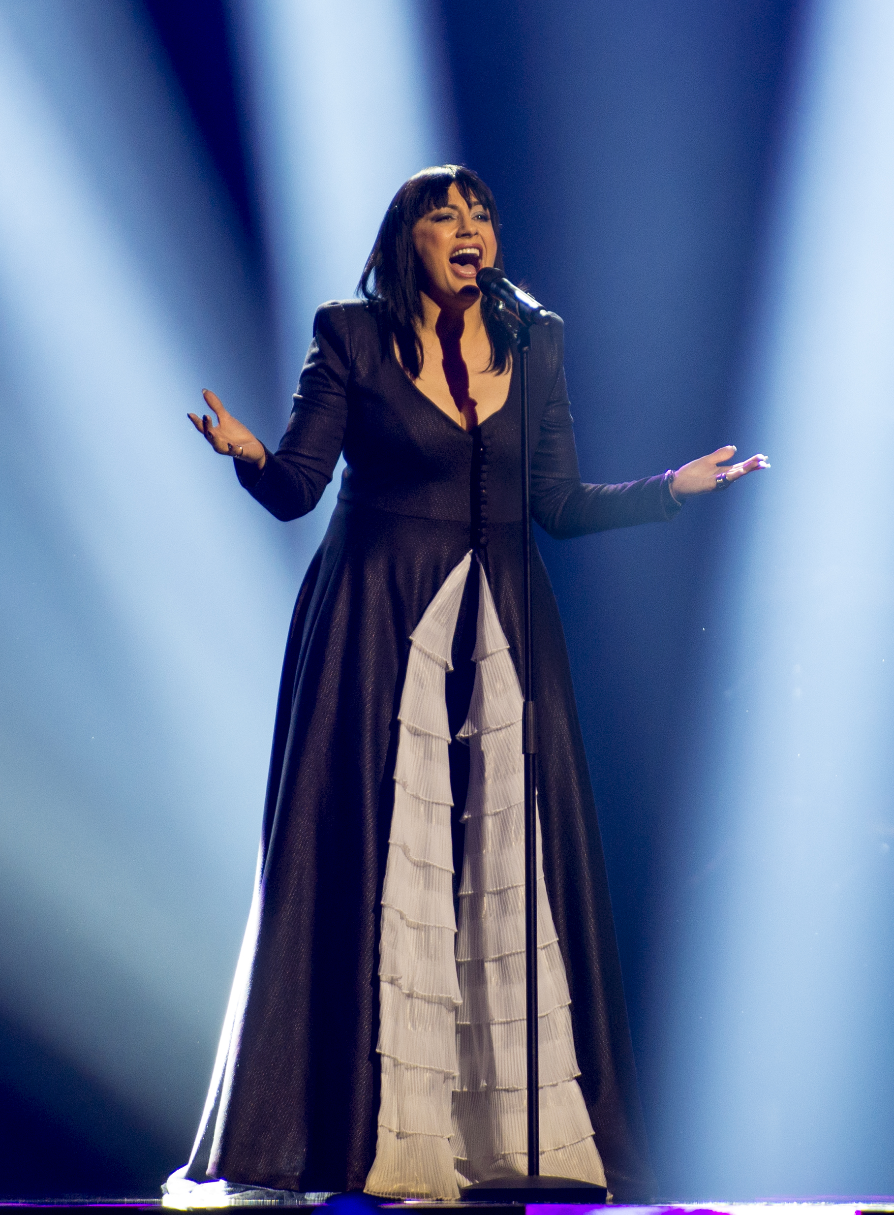 Kaliopi representing North Macedonia with the song "Dona" during a rehearsal before the second semi final of the Eurovision Song Contest 2016 in Stockholm. (Help translate this text)